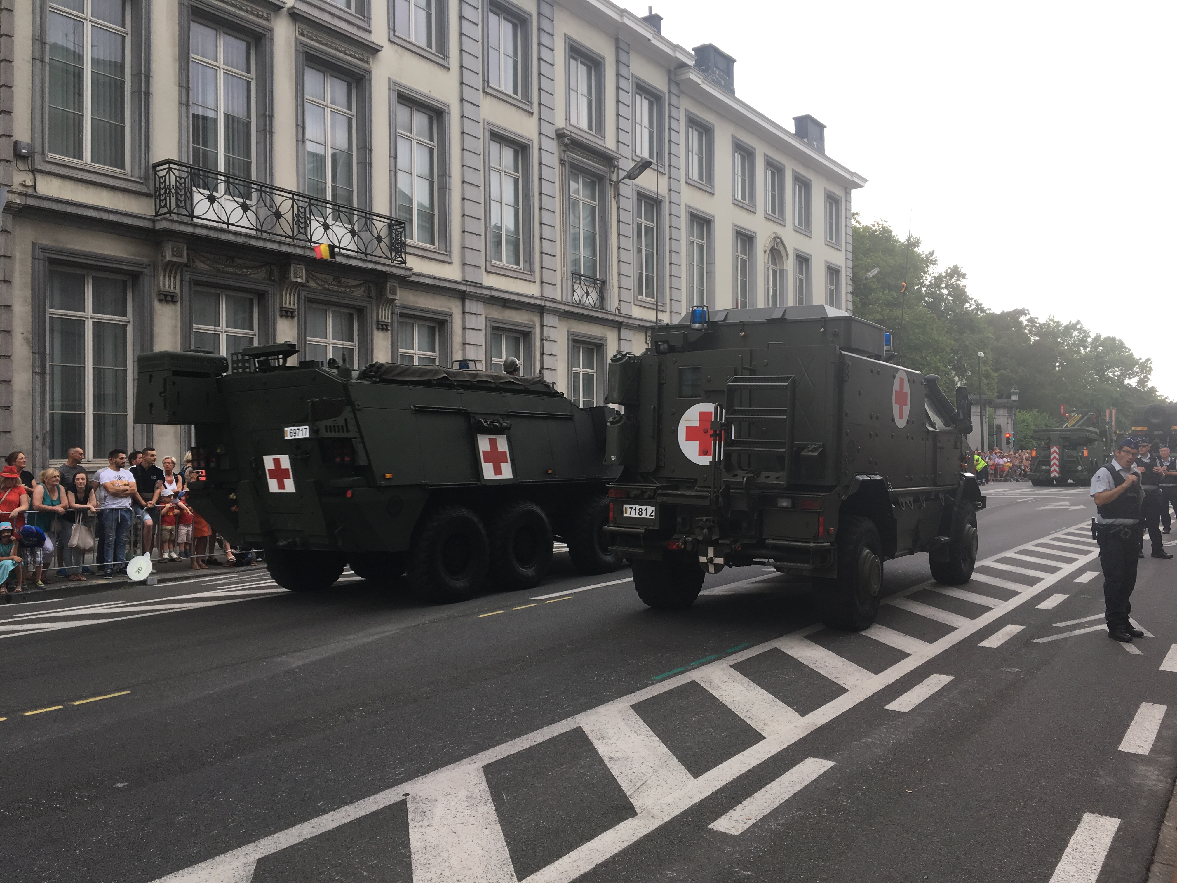 Belgian military ambulances during the National Parade on July 21, 2018